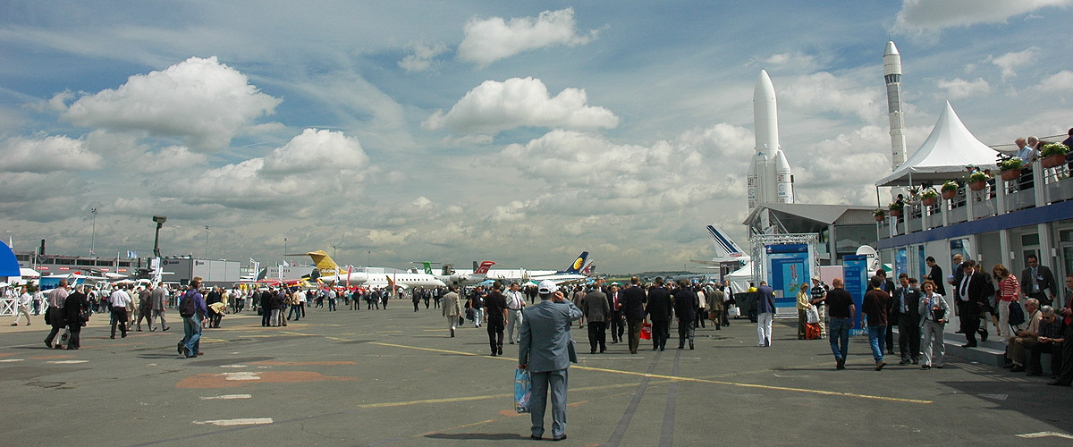 Paris Air Show 2007 at Le Bourget